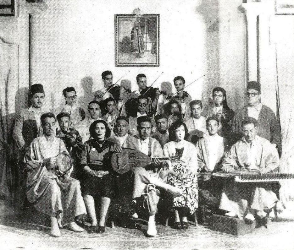 Saliha in the Rachidia. Khemaïs Tarnane is in the center too.